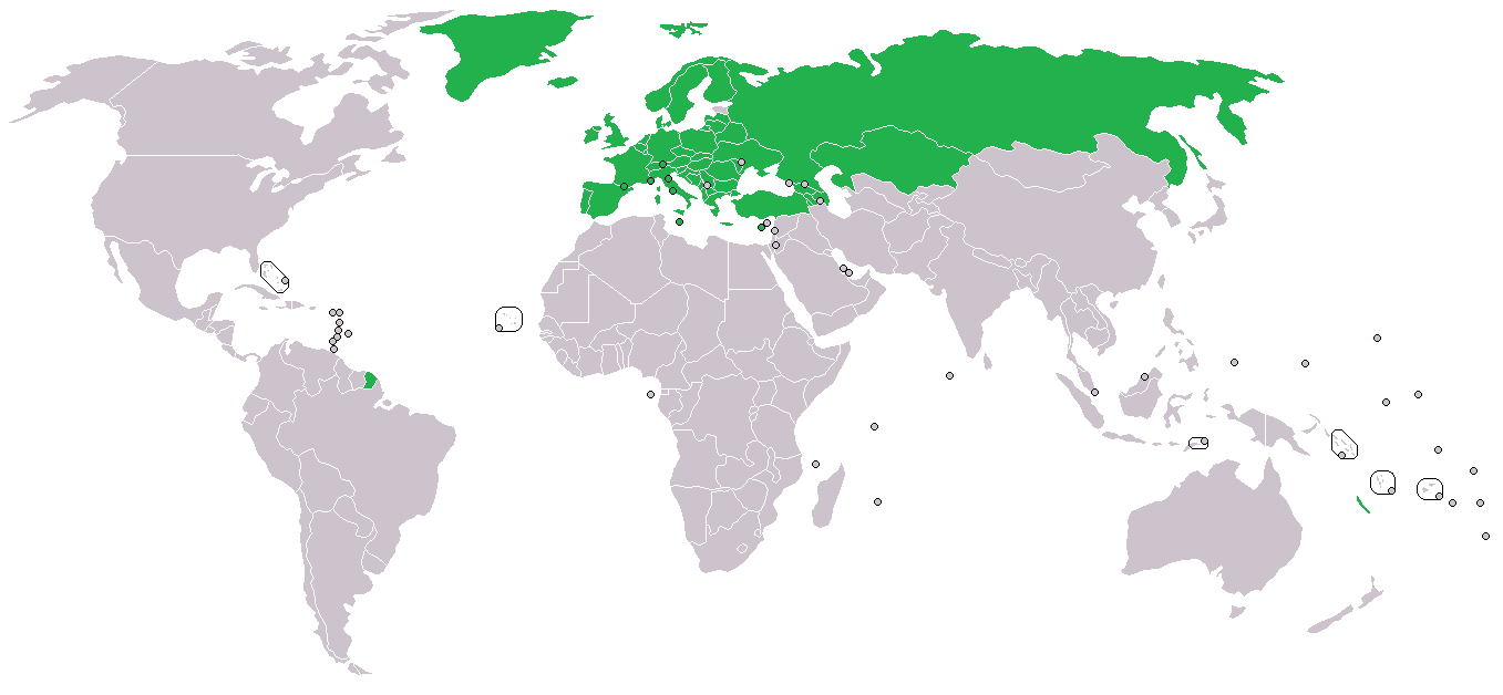 dark green - members